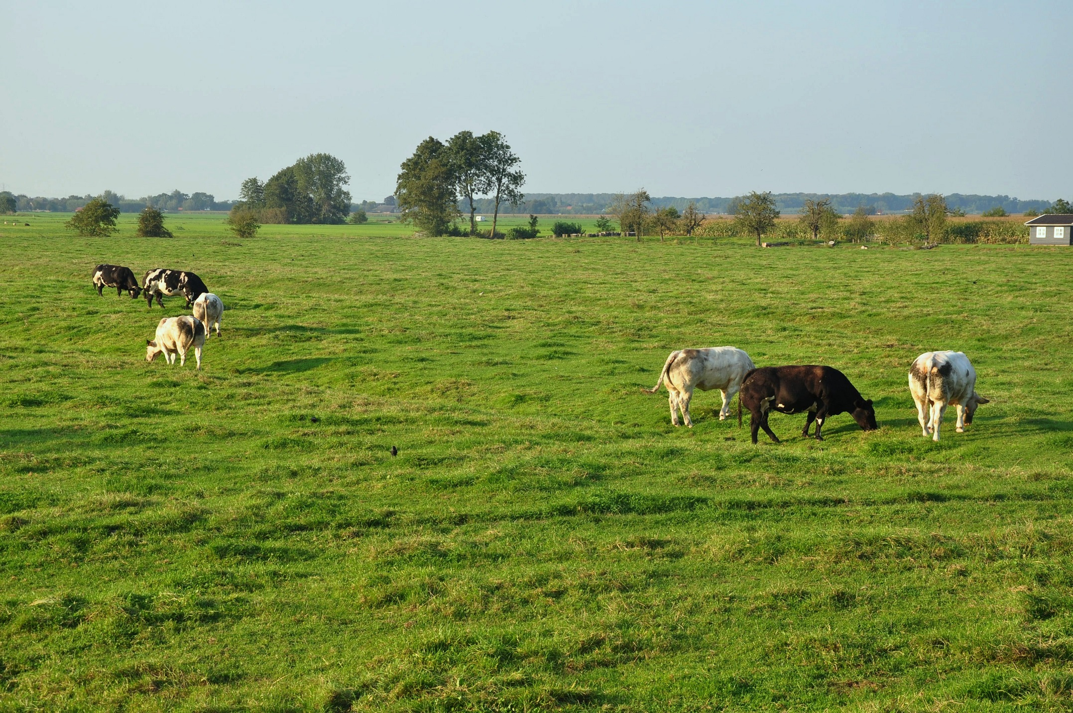 The 'Polder Snelrewaard en Zuid-Linschoten' in Snelrewaard (municipality Oudewater, province Utrecht, Netherlands).